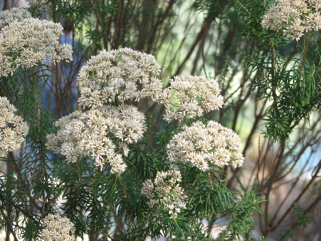 Cassinia aculeata (cultivated, labelled), Royal Botanic Gardens Melbourne, Australia